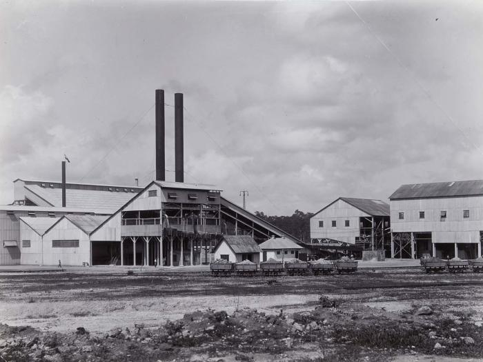 Factory of the Suriname Bauxite Company (SBM)